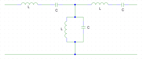 An example of a Band-Pass filter